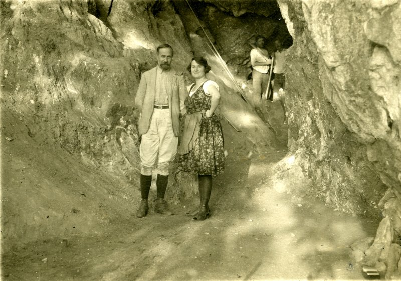 Ottokár Kadić with his second wife before the Leány Cave (Pilis Mountains, Hungary).